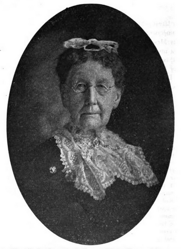 Mrs. Emily Parmely Collins at Ninety Years of Age